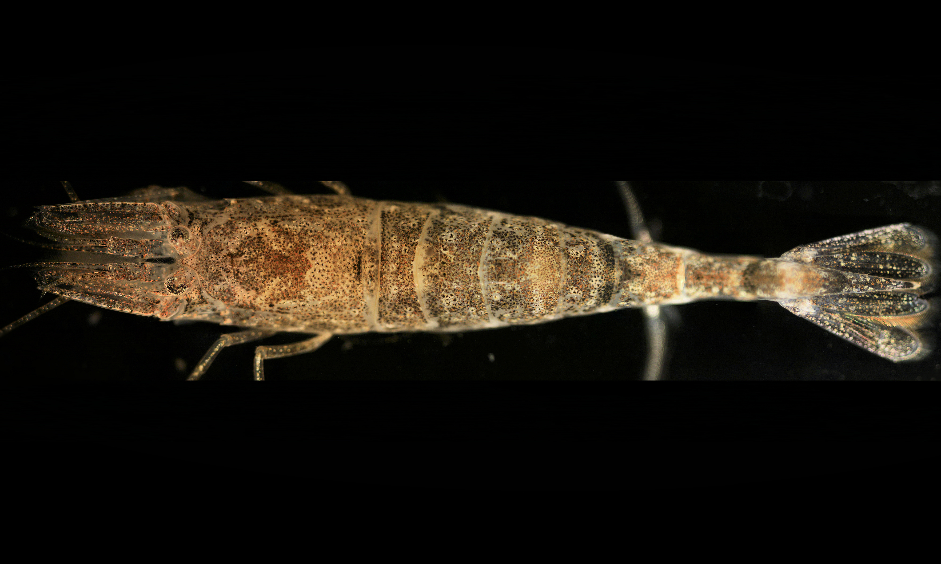 Brown Shrimp from the Belgian part of the North Sea.